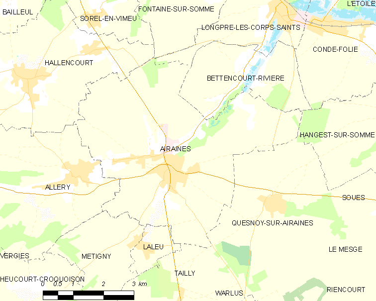 Map of French municipality Airaines